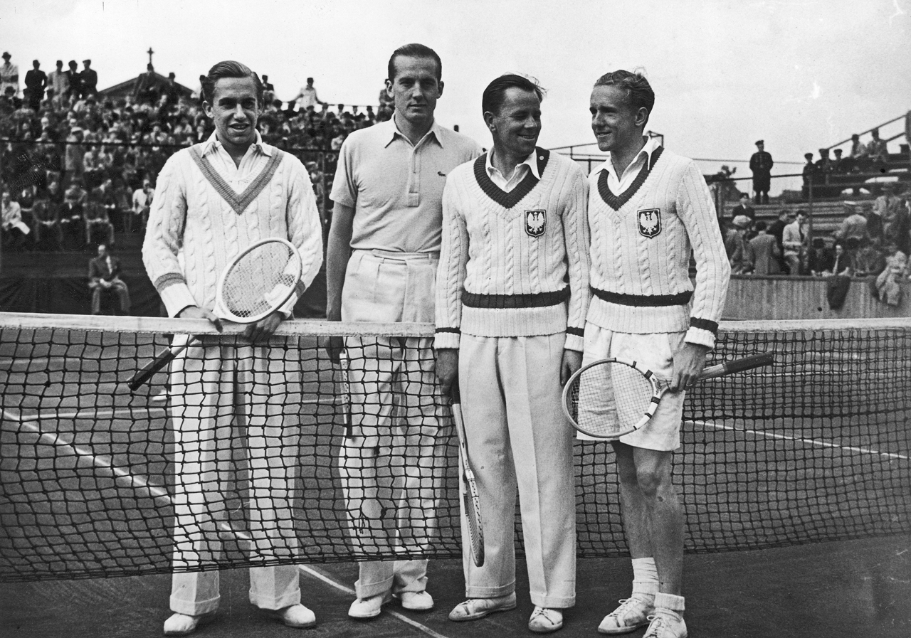 From left to right: tennis players Henner Henkel (GER), Georg von Metaxa (GER) , Józef Hebda (POL) , Adam Baworowski (POL) at the Davis Cup match between Germany and Poland in Warsaw.